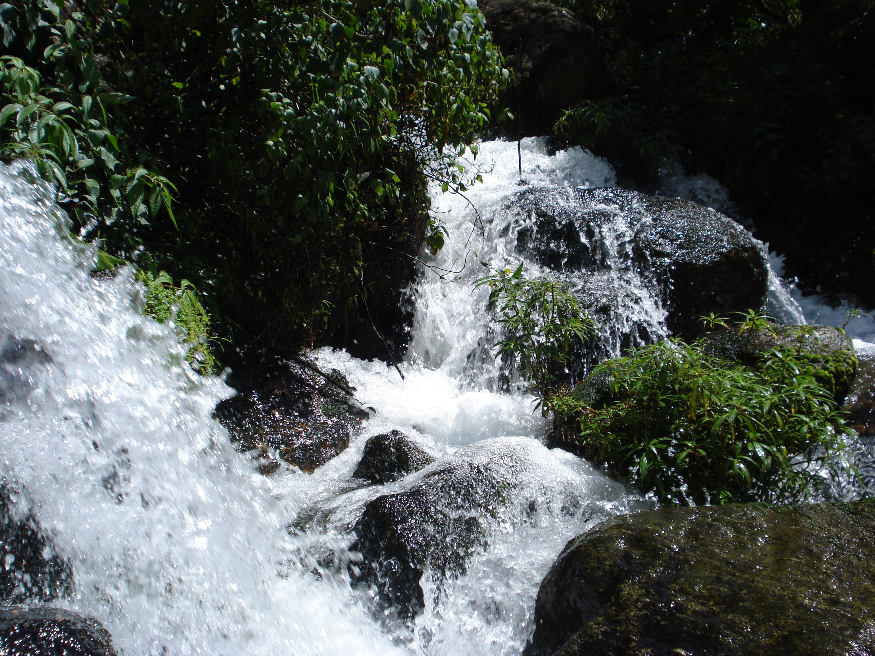 Bagmati River